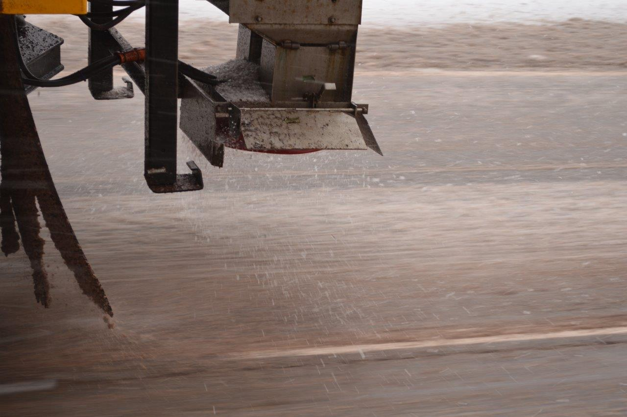 Oregon DOT announced a policy change about using salt to combat ice. The policy change means that ODOT will assess where and when to use solid salt in a surgical manner, as another tool in the toolbox, when the other tools aren’t working and only when we know salt will be effective.